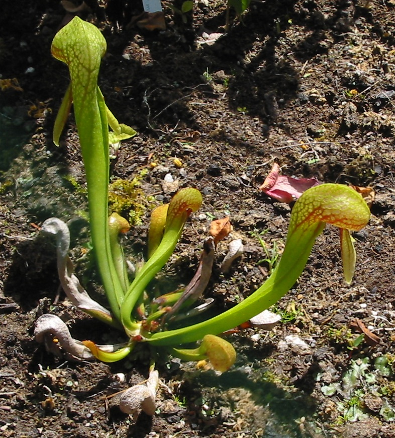 Darlingtonia californica, 14 juin 2004, Jardin alpin, Jardin des Plantes de Paris